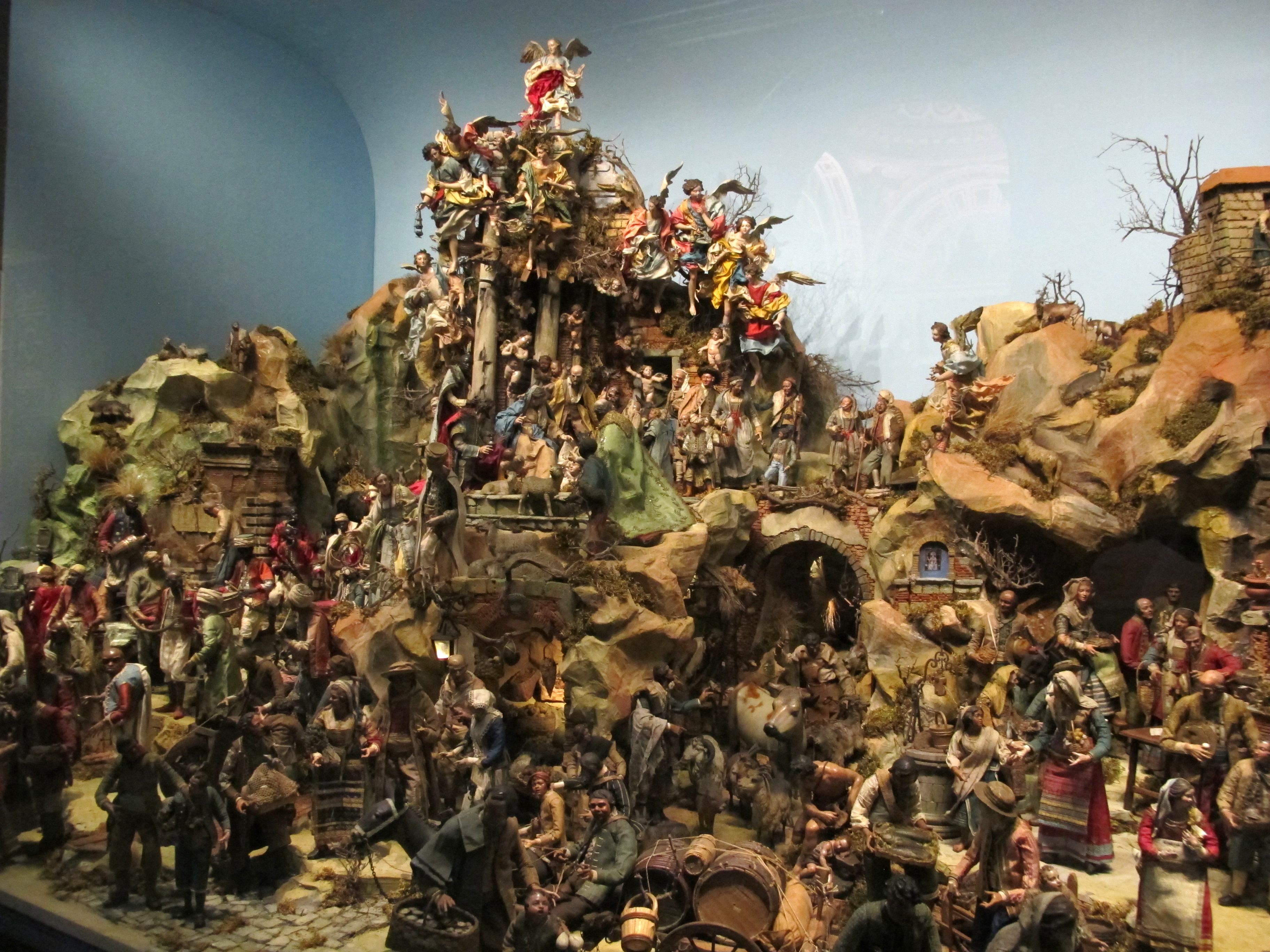 Paintings in the Royal Palace of Naples